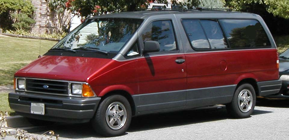 1986-1991 Ford Aerostar LWB photographed in USA.